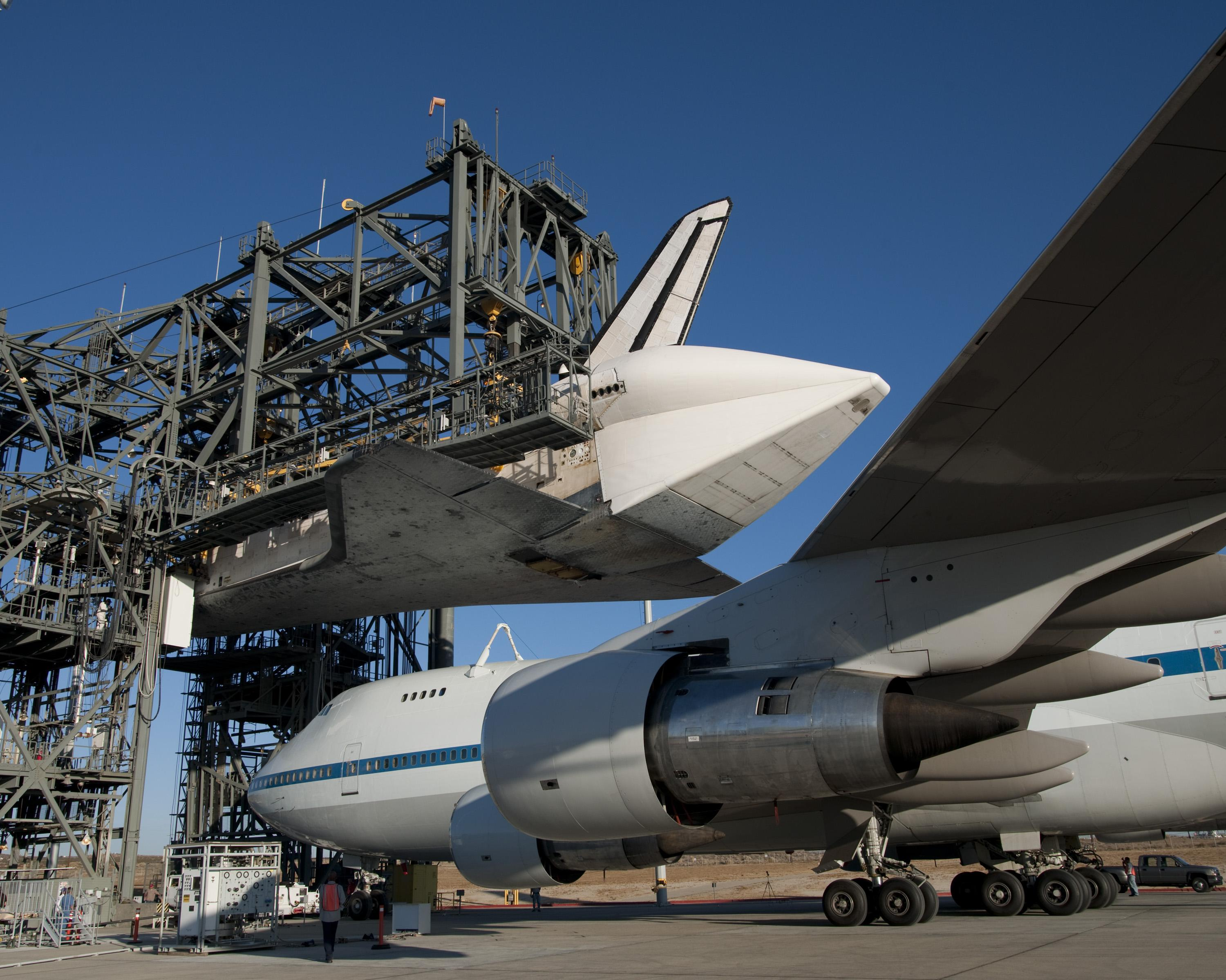 With space shuttle Discovery hoisted 60 feet above ground in the Mate-DeMate gantry at NASA Dryden Flight Research Center, NASA’s modified Boeing 747 shuttle carrier is towed beneath for mating with Discovery prior to their ferry flight back to NASA’s Kennedy Space Center in Florida following the STS-128 shuttle mission.